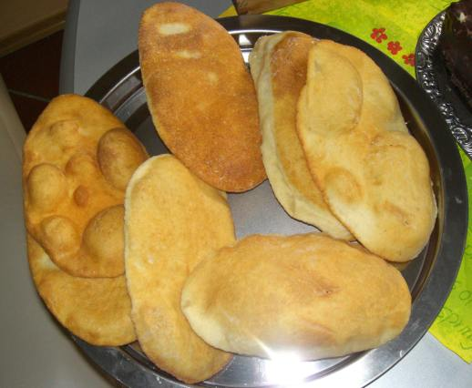 image of a "Schuxen" a bavarian (germany) speciality. Photo was taken by myself.